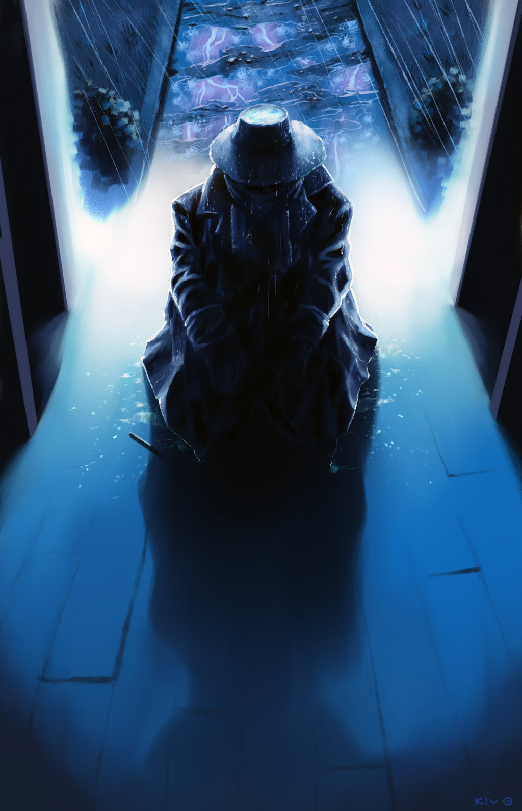 Igor Korotitskiy's artwork based on H. P. Lovecraft's story The Thing on the Doorstep.